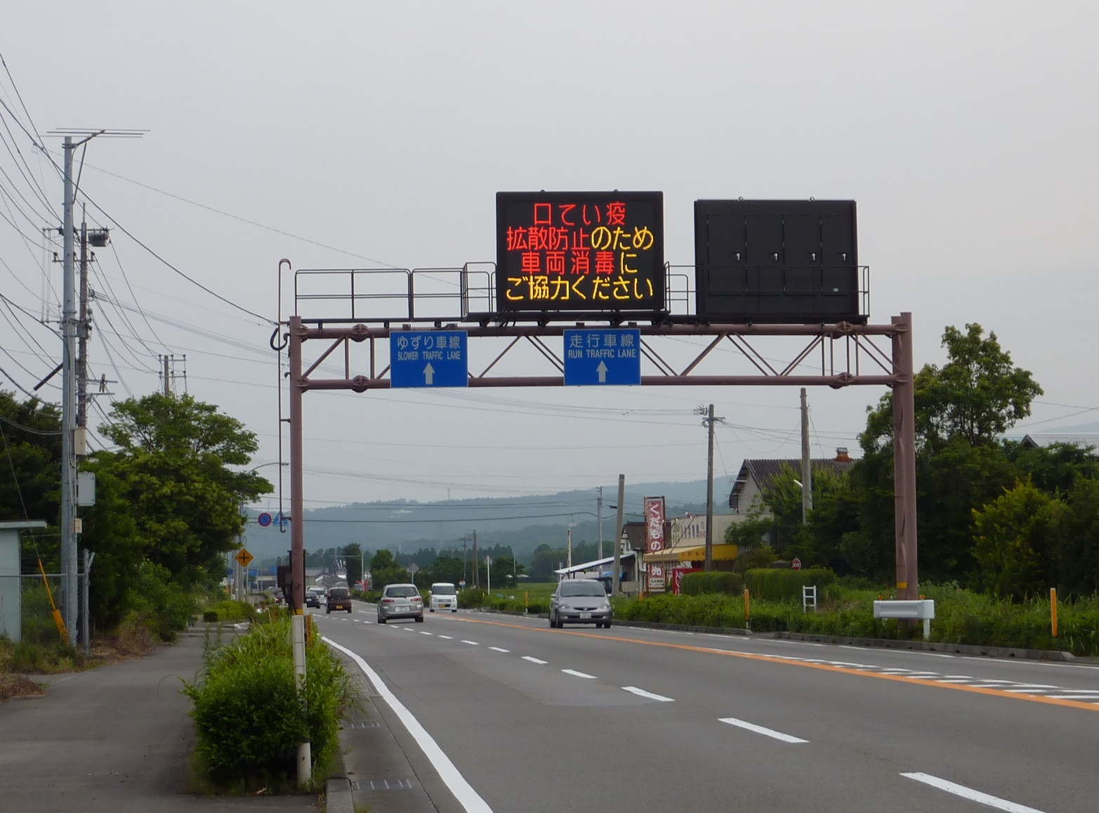 The National Route 10 in Hyakucho-baru, Mimitsu-Cho, Hyuga City, Miyazaki Prefecture, Japan.